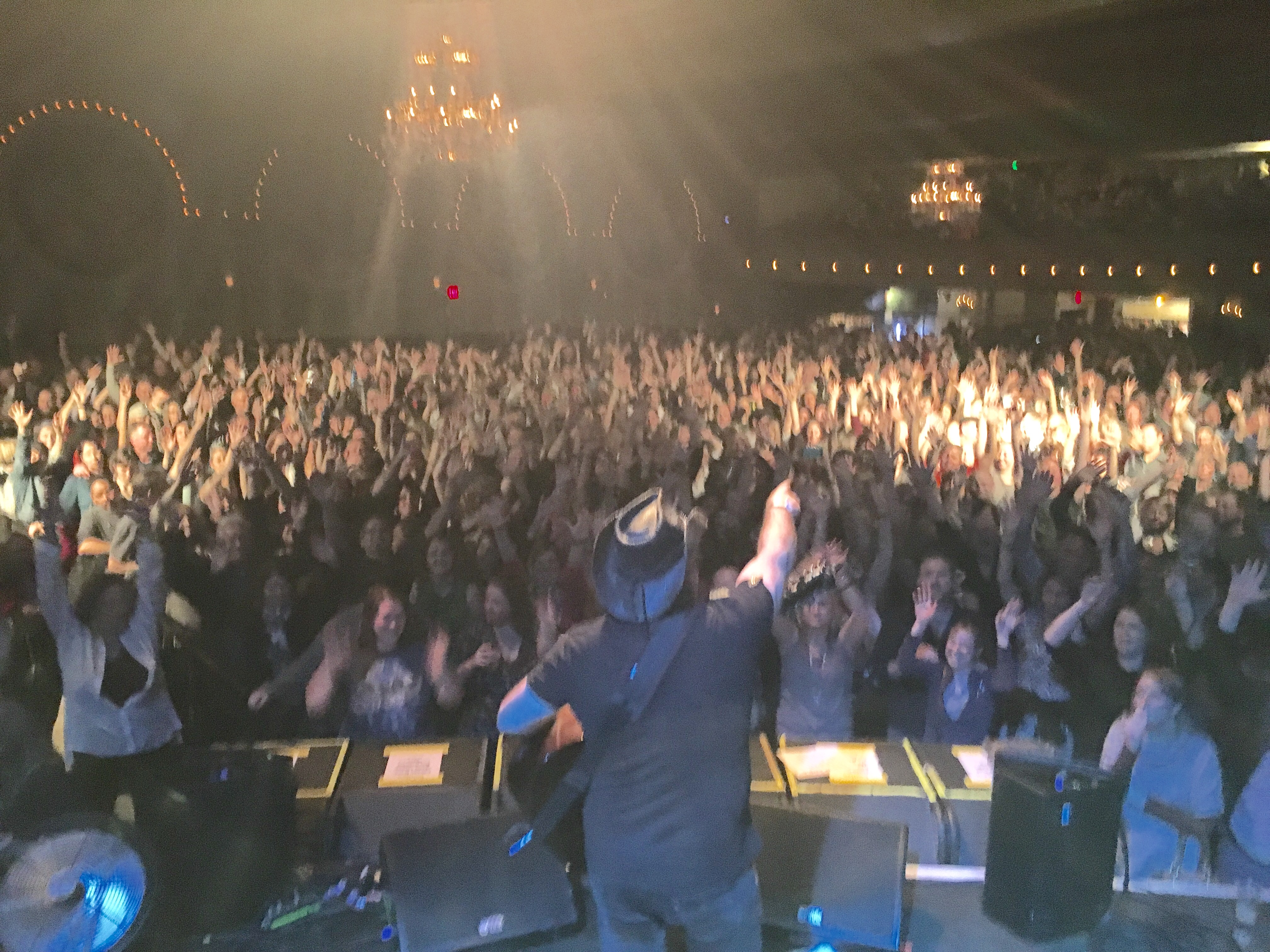 From the stage audience shot of Dan Durkin of Petty Theft. Petty Theft was opening for Super Diamond